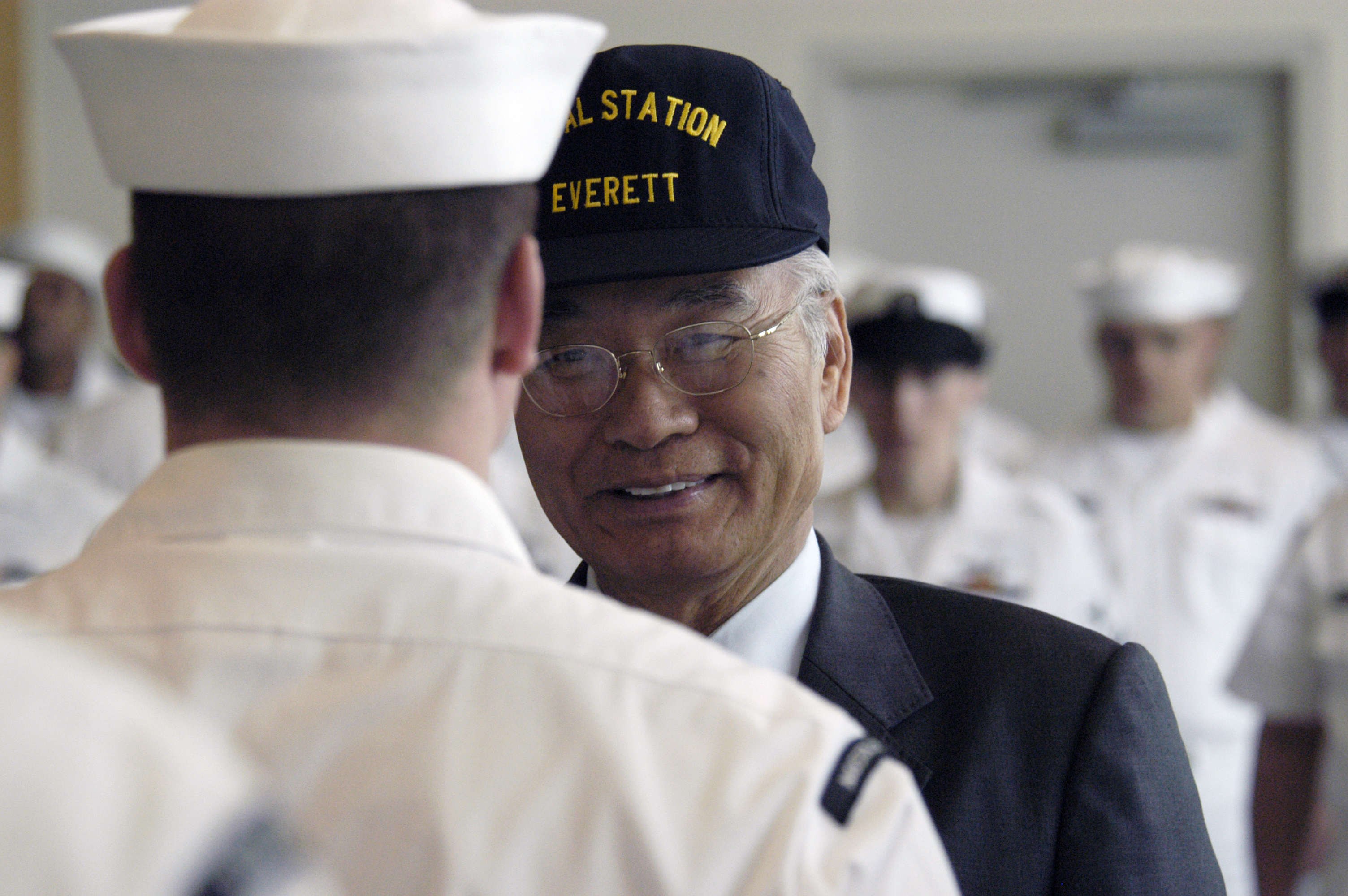 Naval Station Everett, Wash. (May 4, 2004) - Senator Paull Shin (WA-D), a sponsor for legislation that enacted observance of Asian Pacific Heritage Month in the United States, attends a uniform inspection at Naval Station Everett. After the inspection, Sen. Shin spoke to an audience at the base auditorium about his own personal experience, adopted in Korea at the age of sixteen by an U.S. Army Dentist. He arrived in the U.S. with no education and was unable to speak English. The Senator spoke to all in attendance about the honor of serving a country that places such a high regard for personal freedom. U.S. Navy photo by Photographer's Mate 2nd Class Eli J. Medellin. (RELEASED)